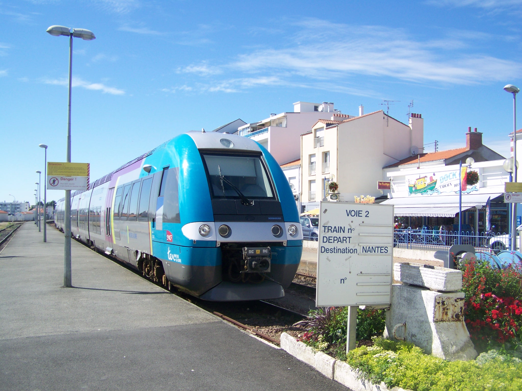 French regional train stopped in city of Saint-Gilles Croix de Vie railway station, in Vendée. Its next destination is Nantes.